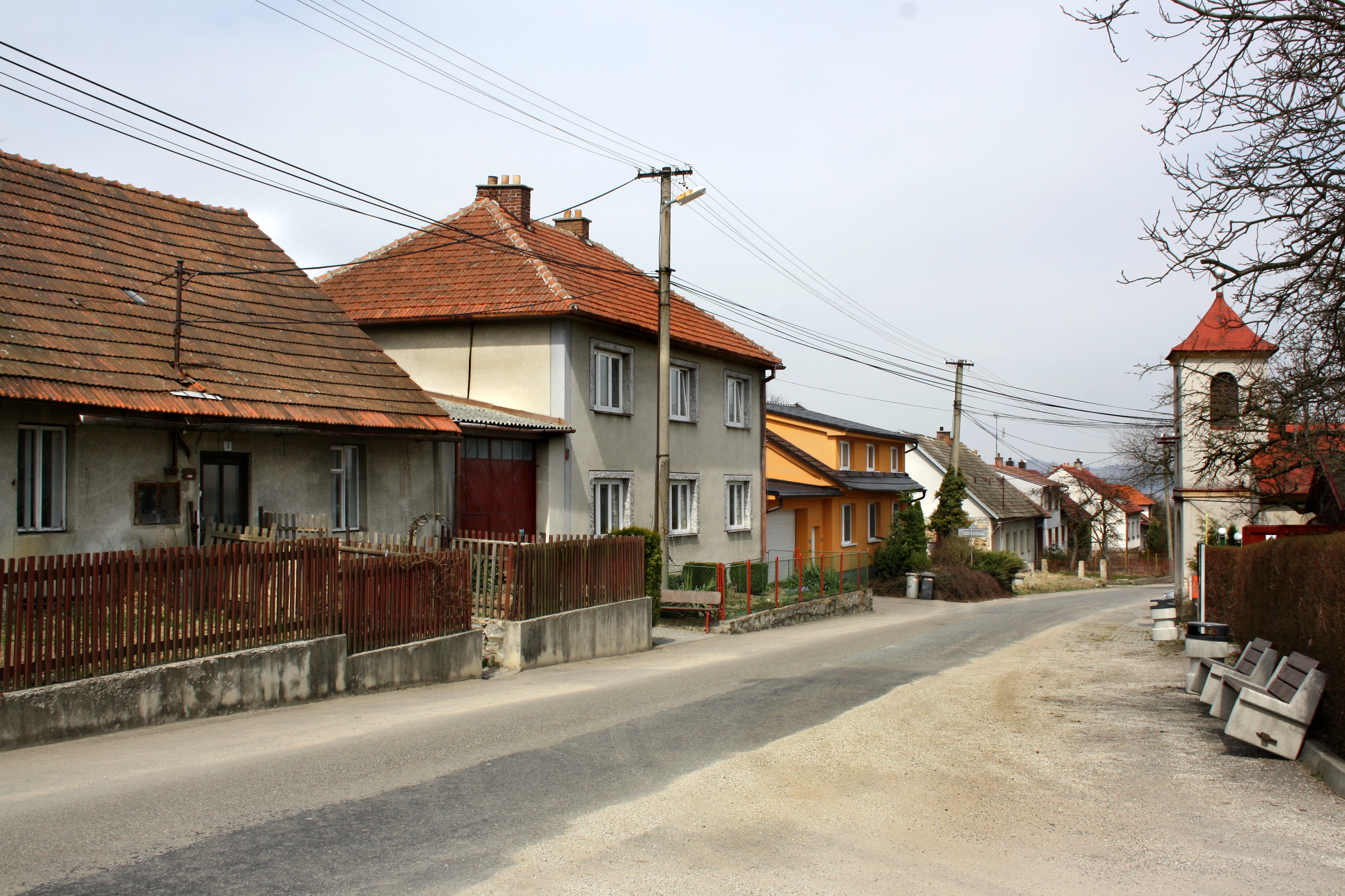 Small common in Geršov, part of Otín village